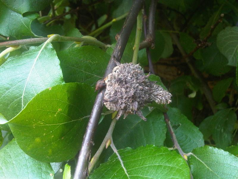 Eriophyid Mite (Stenacis triradiatus, syn: Eriophyes triradiatus) on Goat Willow (Salix caprea); in Putney Heath Common, England.